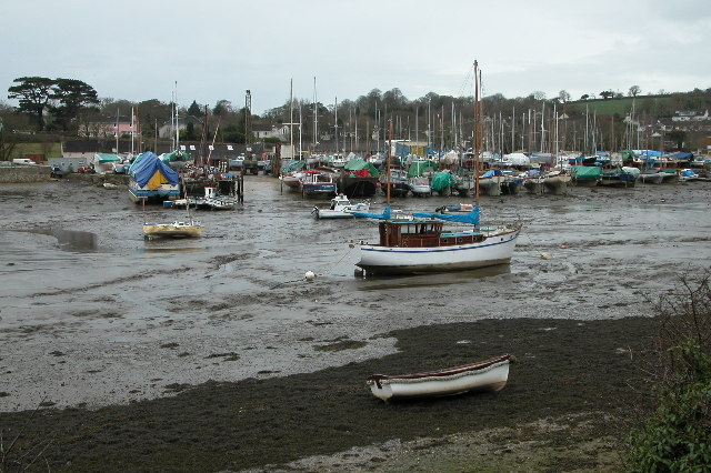 Mylor Creek at low tide. View of a muddy Mylor Creek at low tide